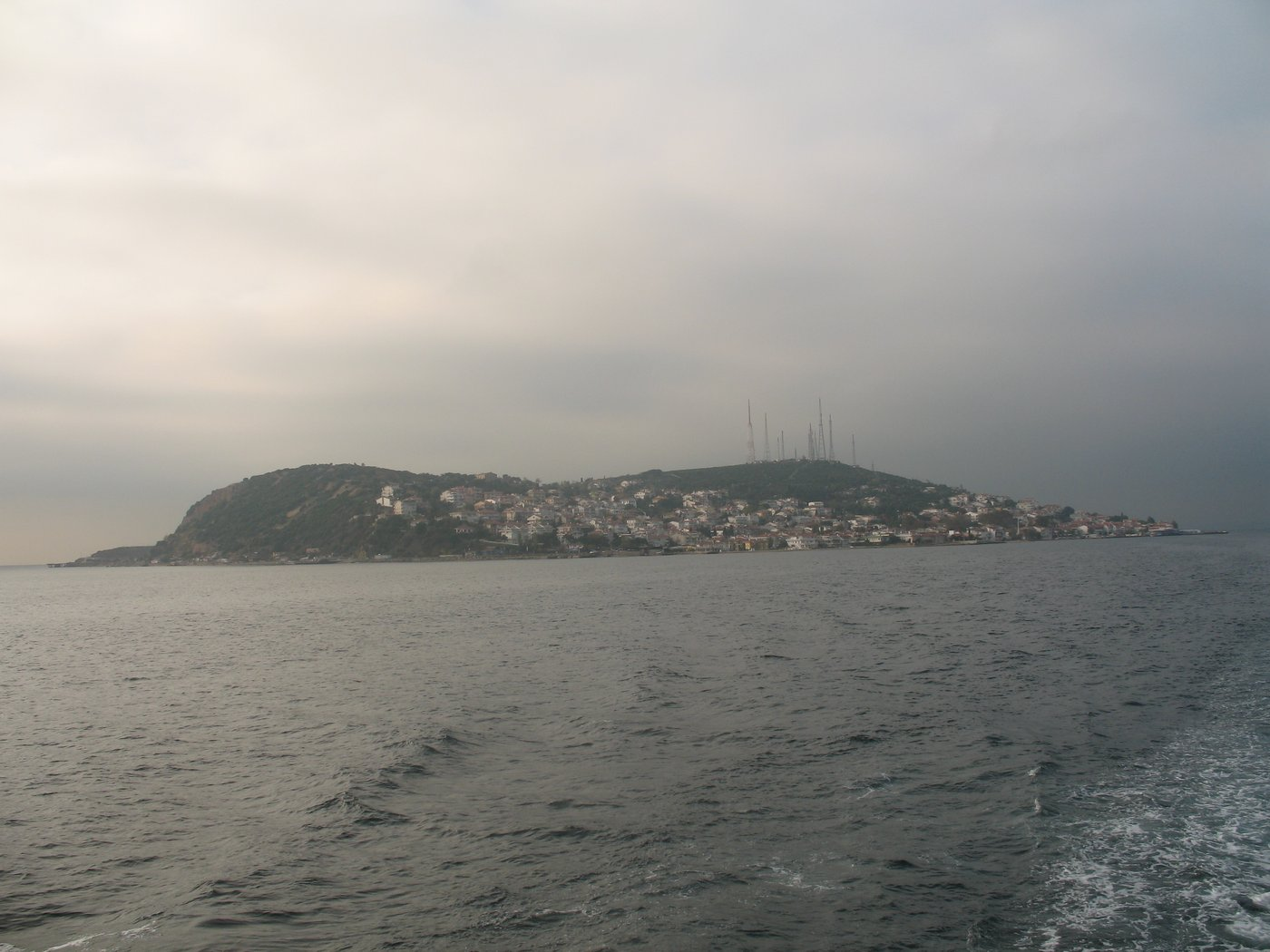 Princes' Islands,Proti or Kinaliada